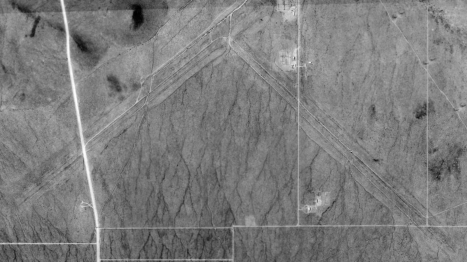 USGS aerial photo of Hackberry airfield in 1993